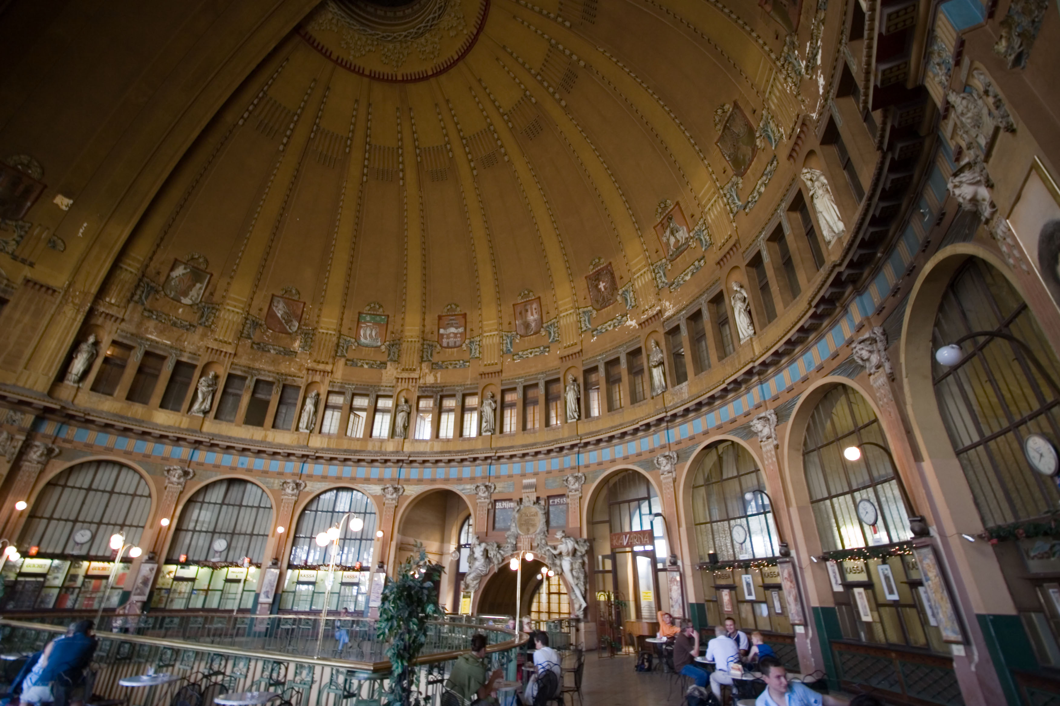 Praha station. Building of Art Nouveau style.